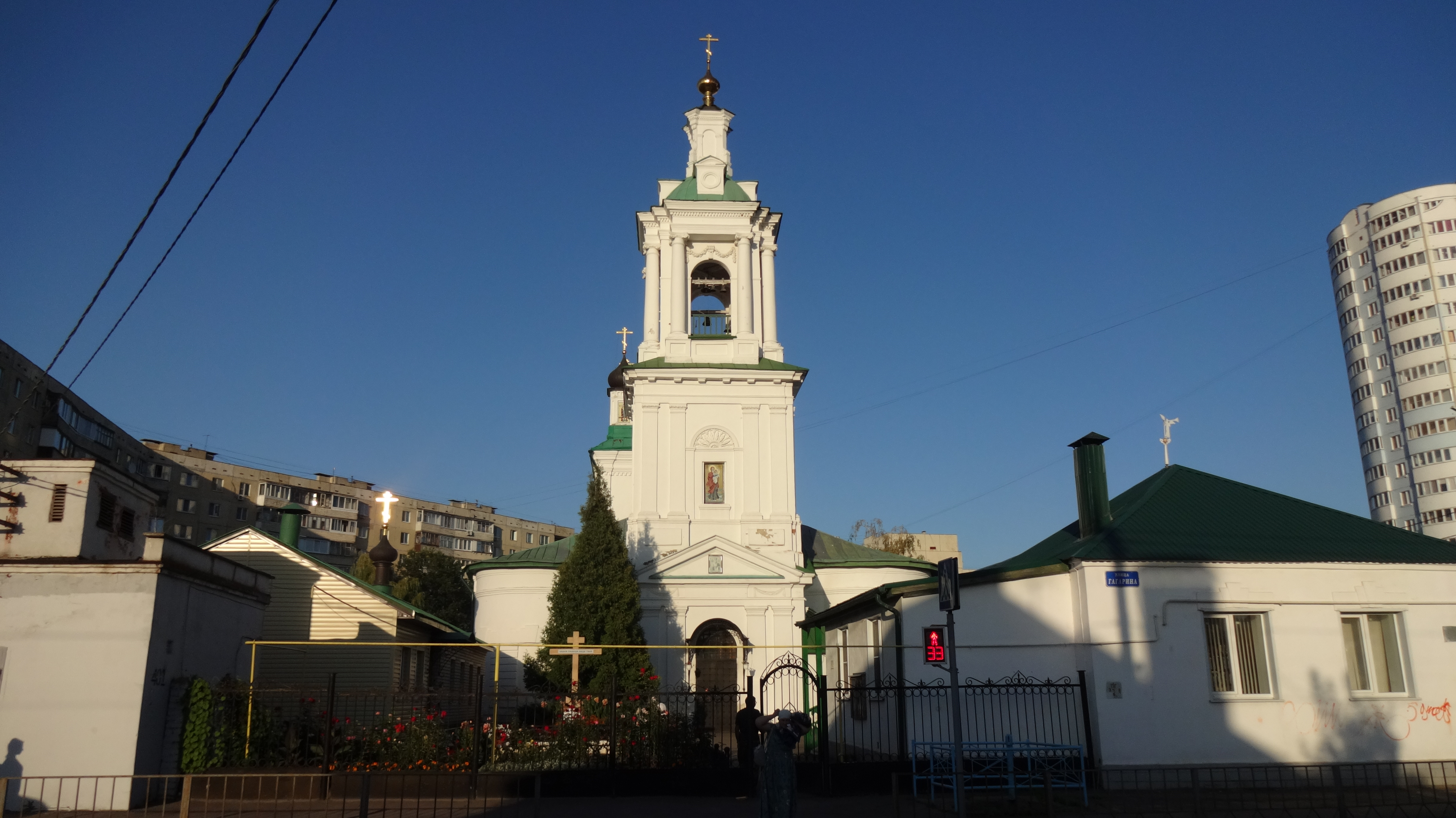 The bell tower of Nikolo-Peskovskaya church in Oryol